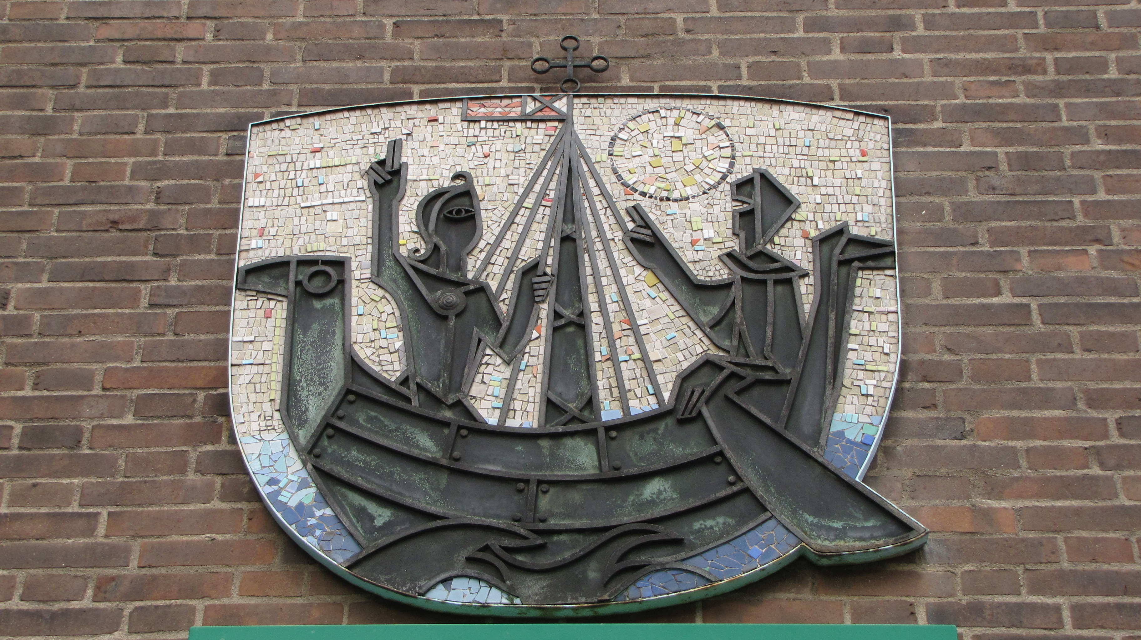 Kunst am Bau at the Inner city Police station in Lübeck, Mengstr. by Curt Stoermer, the piece shows a modern version of the medieval city seal of Lübeck